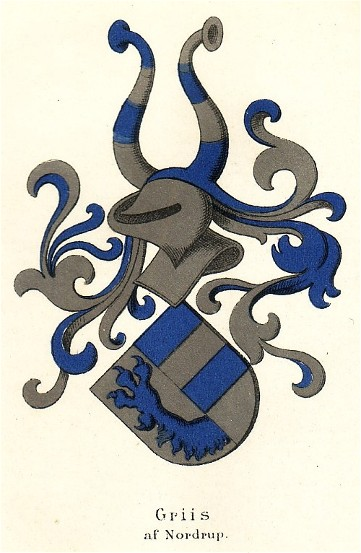 Coat of arms of the Griis of Nordrup family